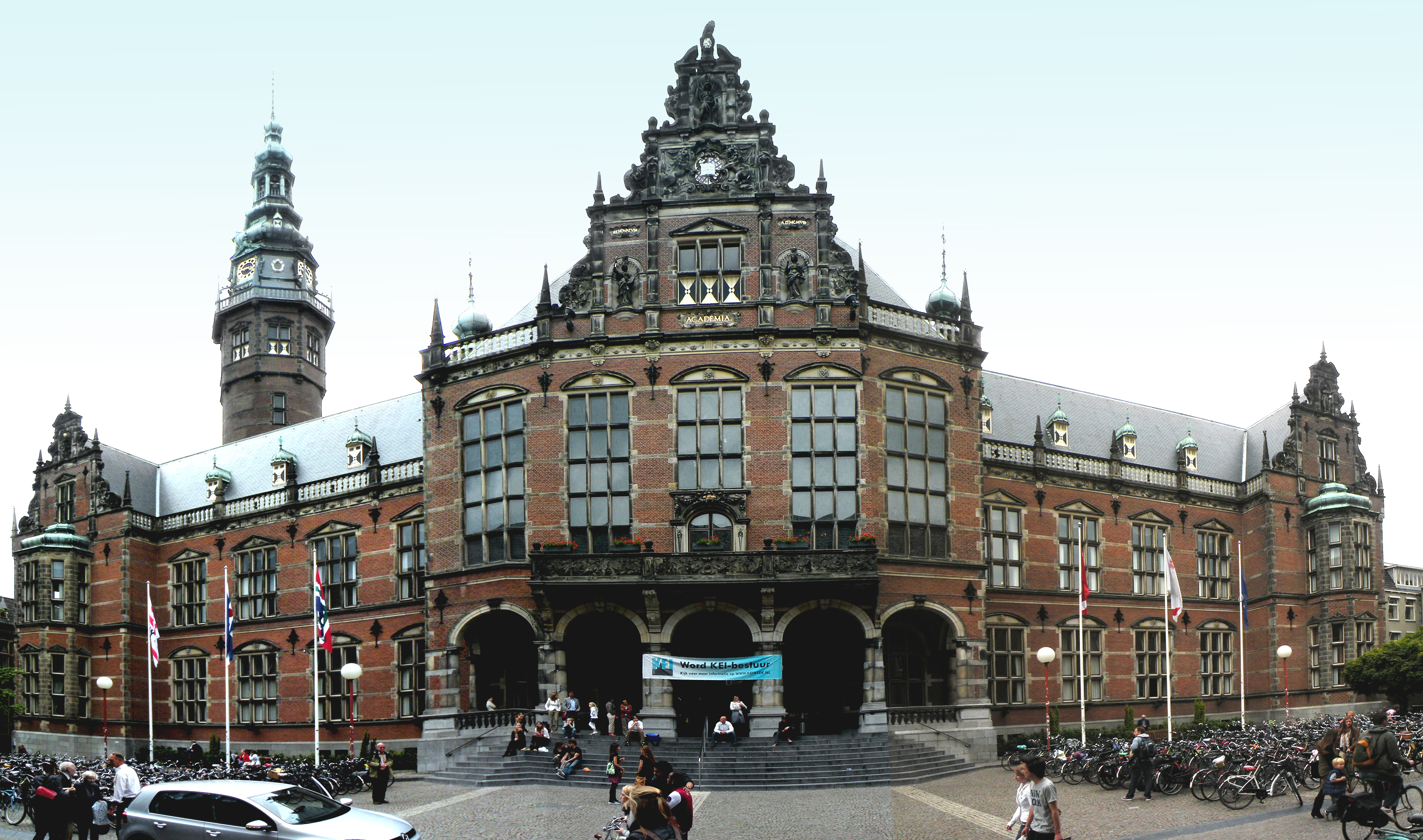 Groningen.University